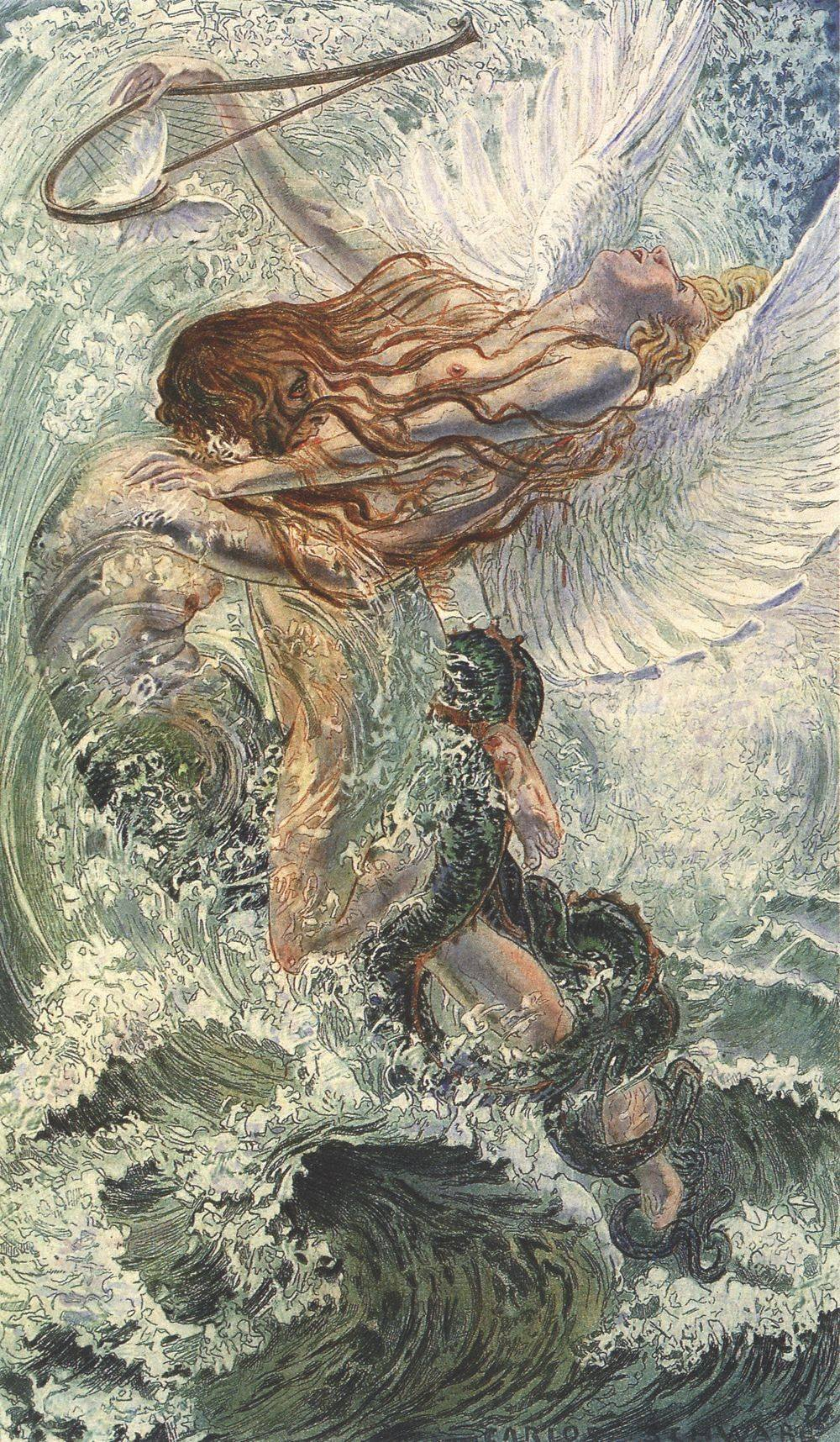 Altona (Germany)